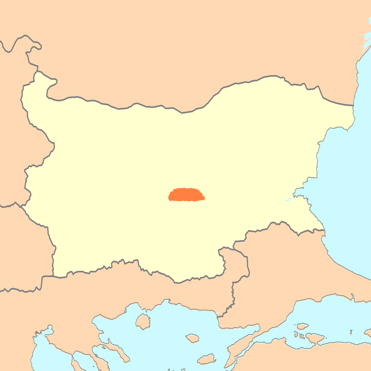 Tracian Fine Fleece Sheep areal of distribution